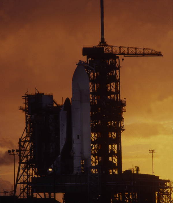 Space Shuttle Columbia on the launch pad - Cape Canaveral, Florida.